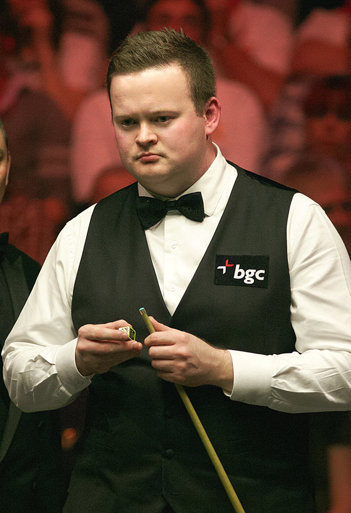 Shaun Murphy at Masters 2012 in London